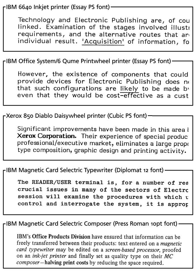 I set these samples on the various systems in 1980-81, after which they were printed offset litho (all on the same page, at the same time). This image was scanned 2007-12-12 from the printed version, so it will not have the edge fidelity of the original paste-up. The scan brightness (+6) and contrast (+29) were enhanced, frames and captions (in Frutiger Linotype) added and size was reduced (Bicubic) using Photoshop CS2.